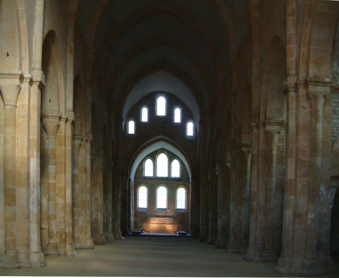 Fontenay Abbey, Burgundy, FRANCE.